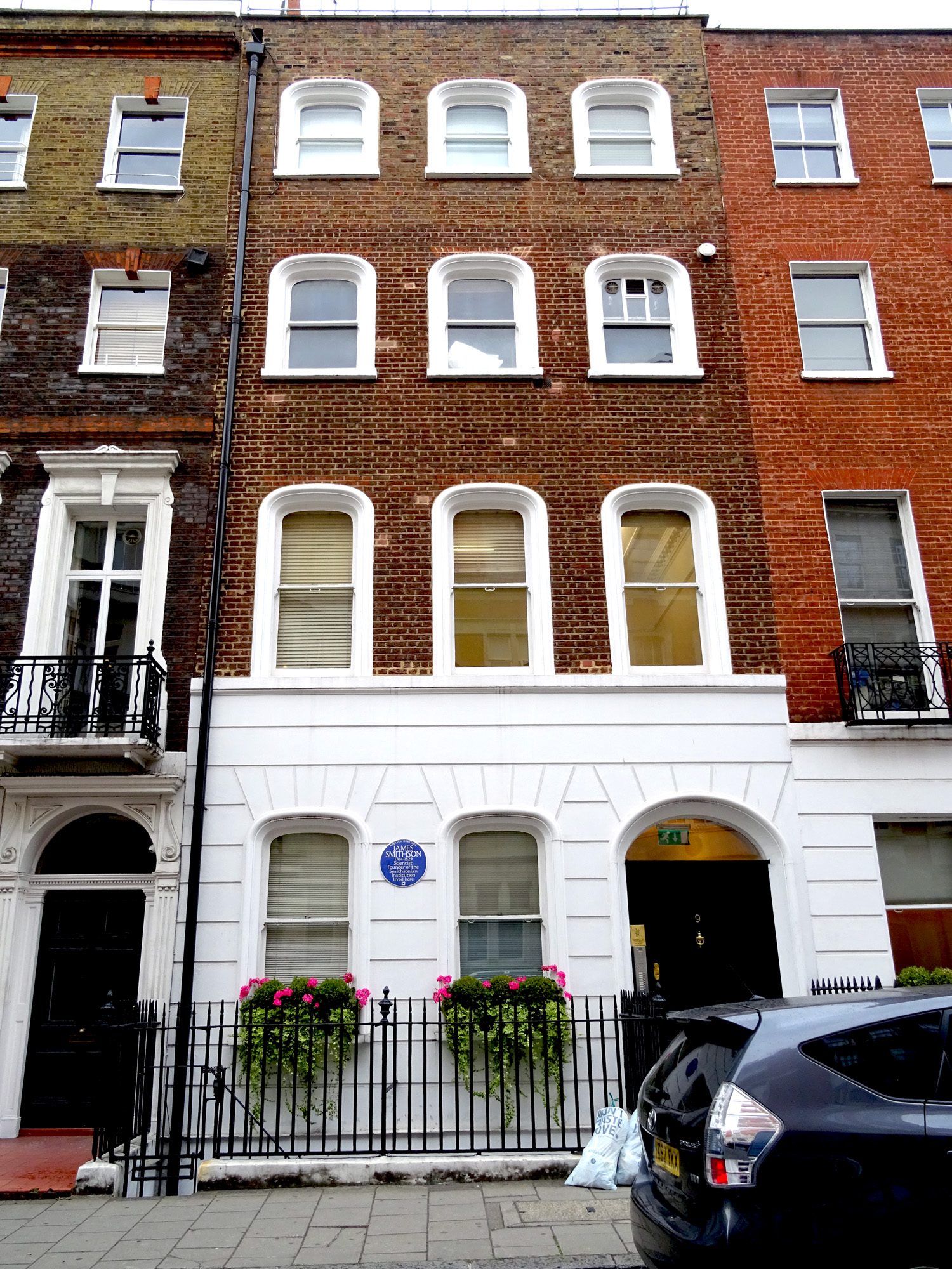 JAMES SMITHSON 1764-1829 Scientist Founder of the Smithsonian Institution lived here